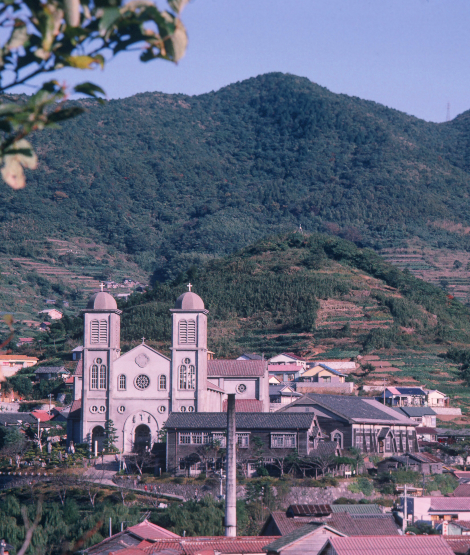 Urakami Cathedral as seen from the Nagasaki Peace Park. The 1959 reinforced concrete structure was later covered by brick tiles during the 1980 remodeling